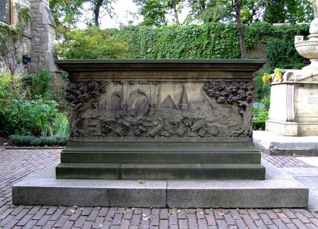 Tomb of the John Tradescants Tomb of the John Tradescants at the Museum of Garden History, in Lambeth.